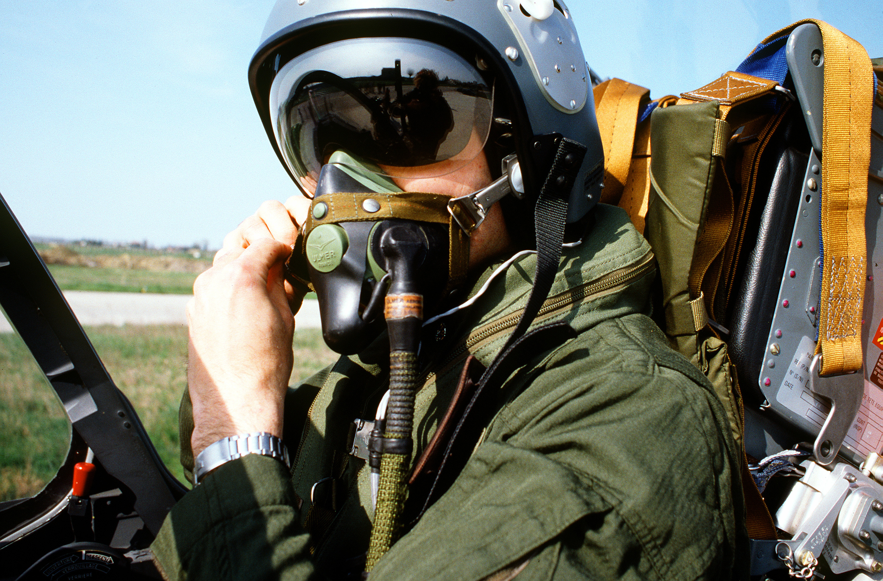 Capt. Smith of the 2nd Component, 5e Escadre De Chasse "lle de France," pluts on an oxygen mask in the cockpit of his Mirage 2000C aircraft. He is preparing fro a sortie in support of Operation Deny Flight, the enforcement of the Untied Nations-sanctioned no-fly zone over Bosnia and Herzegovina.